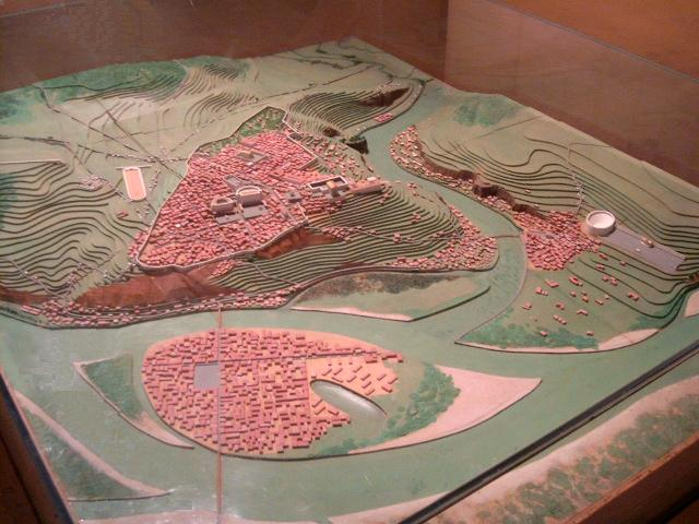 Scale model of roman city of Lugdunum, according to Amable Audin's archeologic theories. Gallo-Roman Museum of Lyon-Fourvière